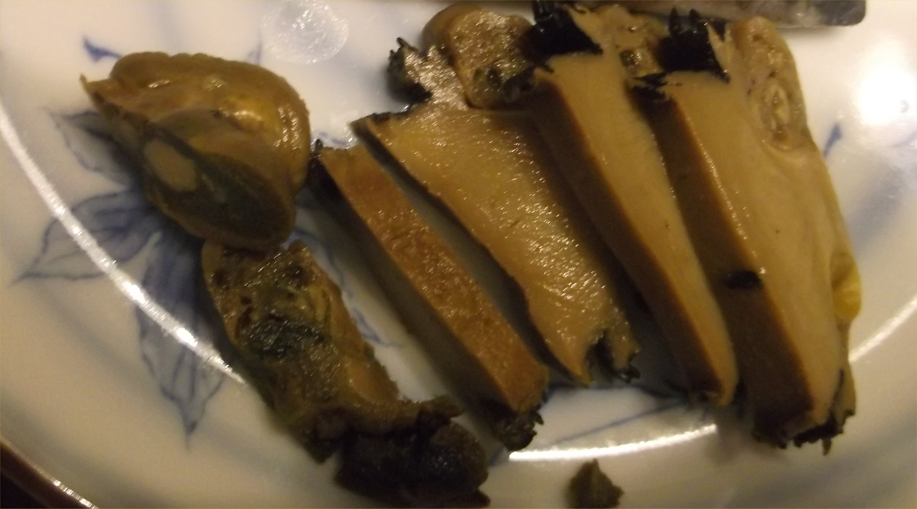 A photo of "Awabi no Nigai"(an abalone steamed in soy sauce).a specialty dish of Yamanashi pref.